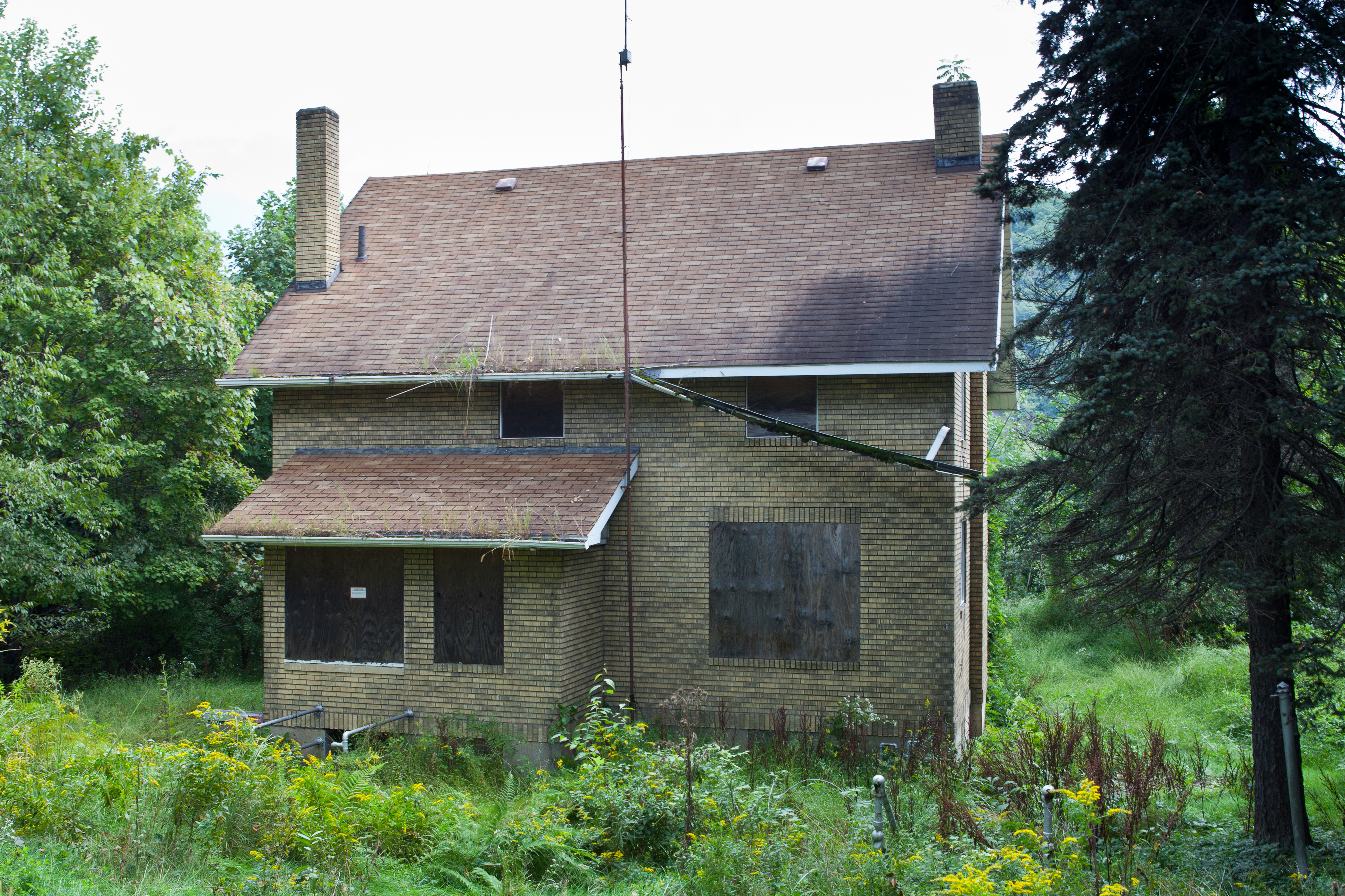 Locktender's House (vacant) at Allegheny River Lock and Dam No. 6.